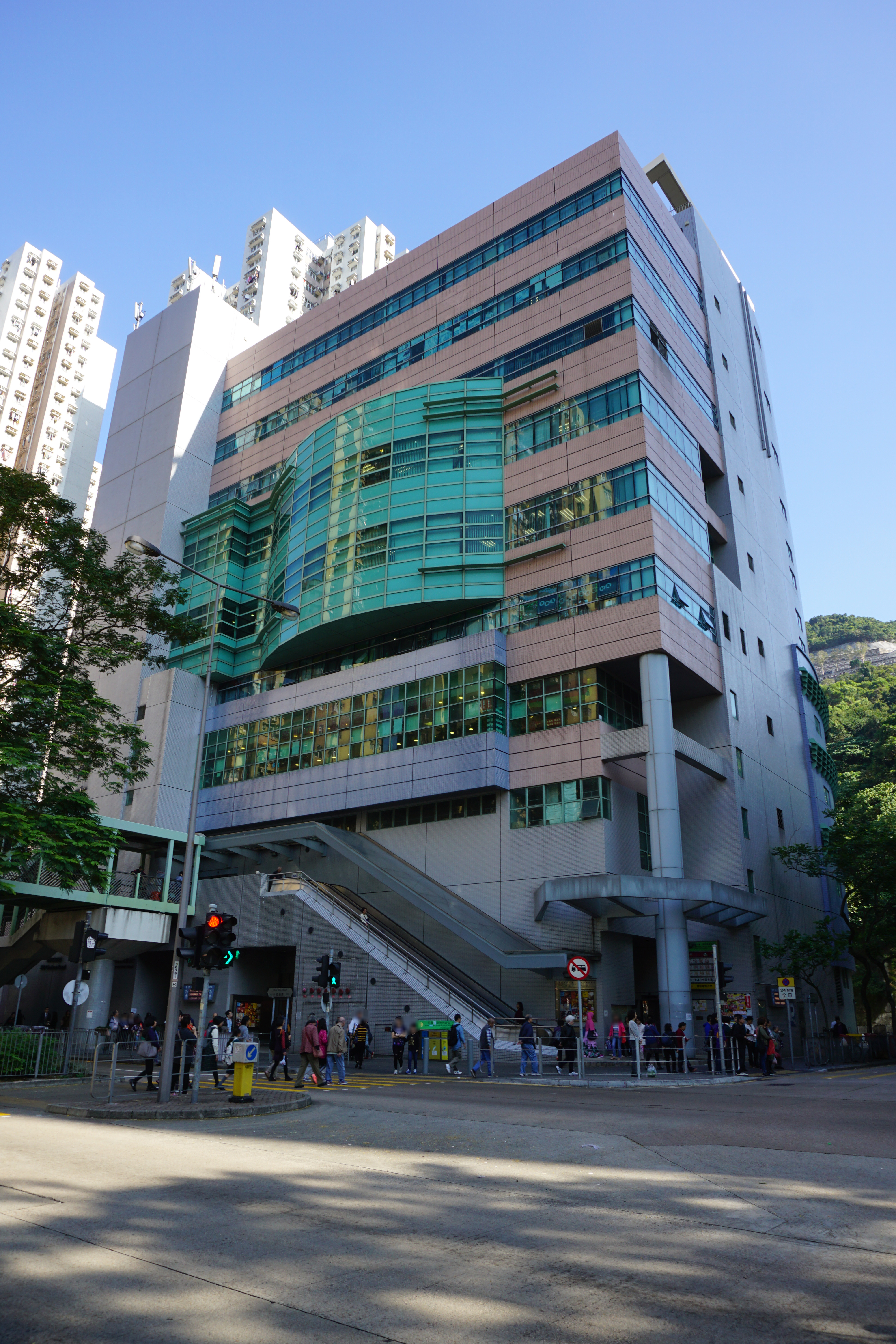 Municipal Services Building in Chai Wan, Hong Kong.